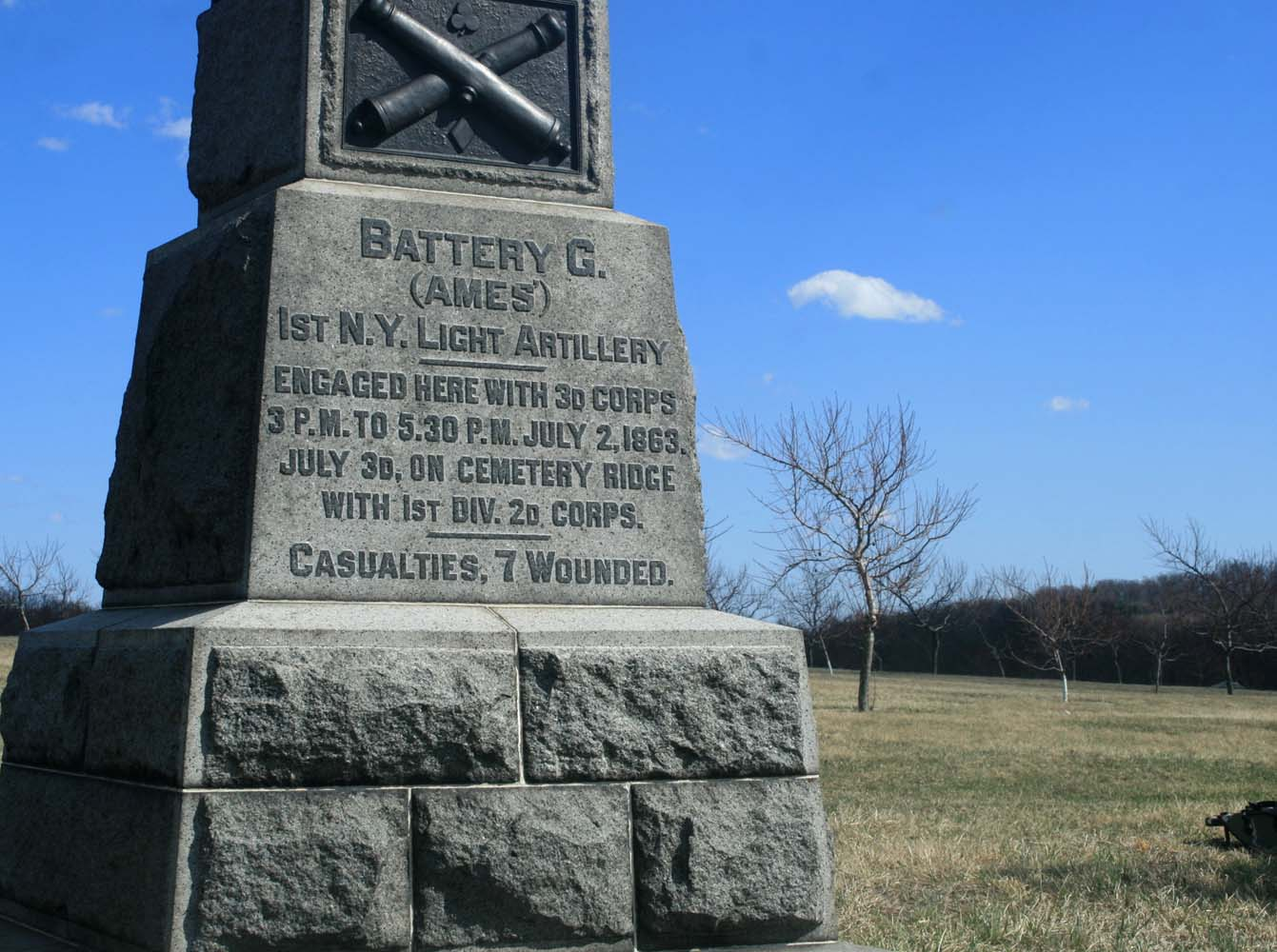 The monument to Battery G, First New York Light Artillery is south of Gettysburg in the Peach Orchard. The monument was informally dedicated on the anniversary of the battle in 1893. According to Ames, “Thirteen of the survivors of the battery were present, and we dedicated the noble monument in silence and in tears. No one wanted to make a speech, an none was made. Our meeting was like the meeting of a family, and formalities seemed out of place. We dedicated the monument with our tears…”